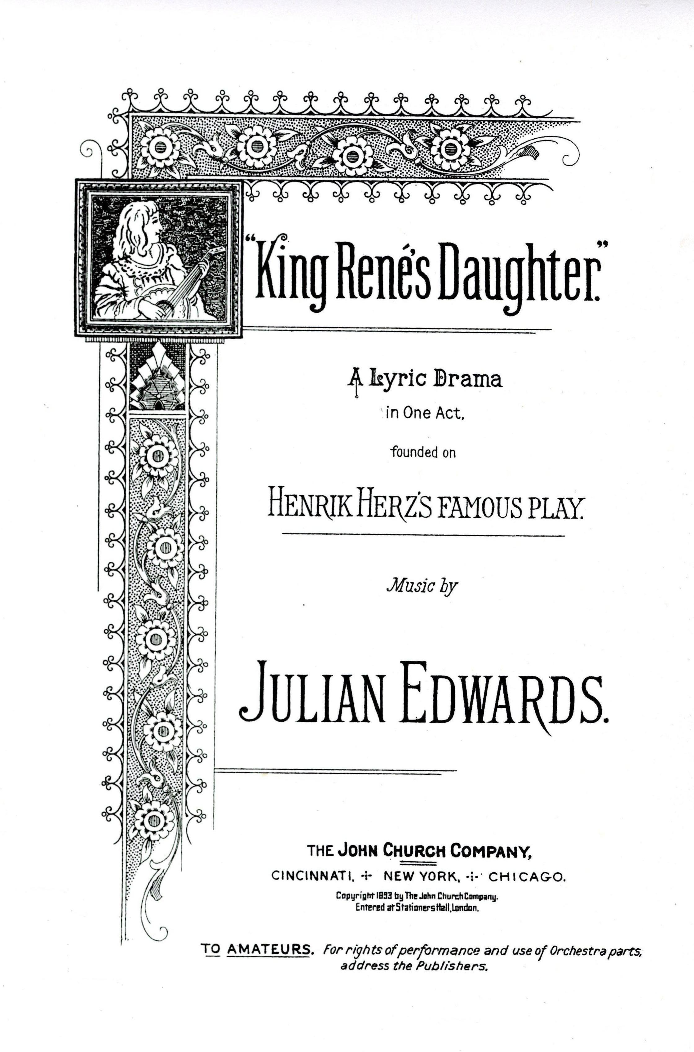 musical score of King Rene's daughter, 1893 musical based on the play by Hertz, music by J Edwards